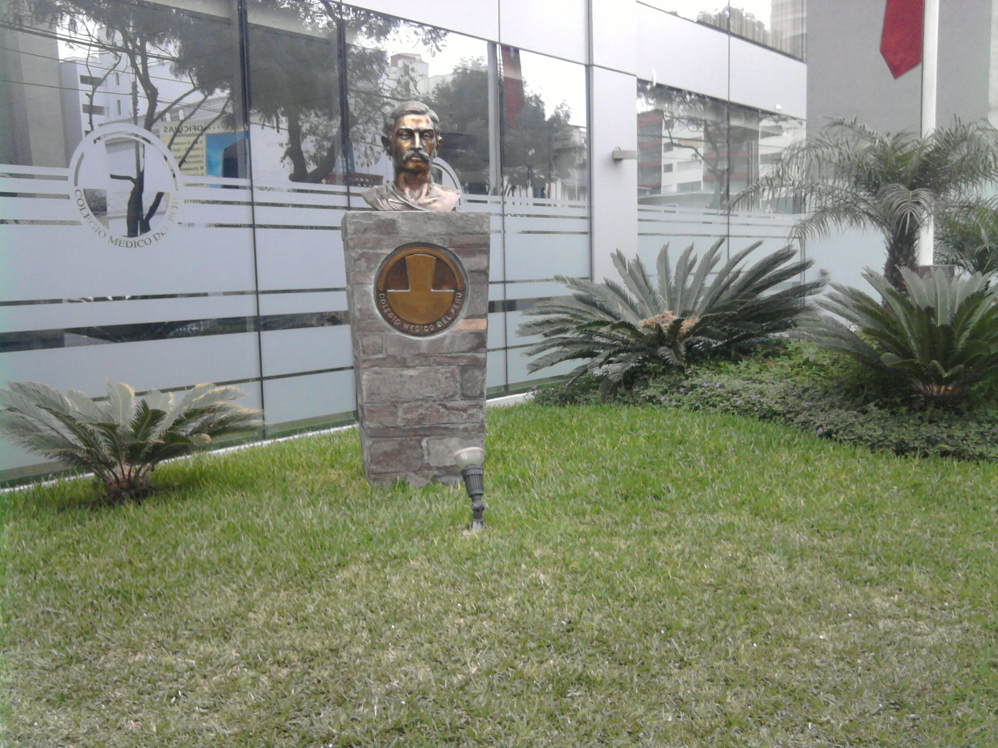 Bust of Daniel Alcides Carrión, Peruvian Physician Academy, Miraflores District, Lima-Peru.